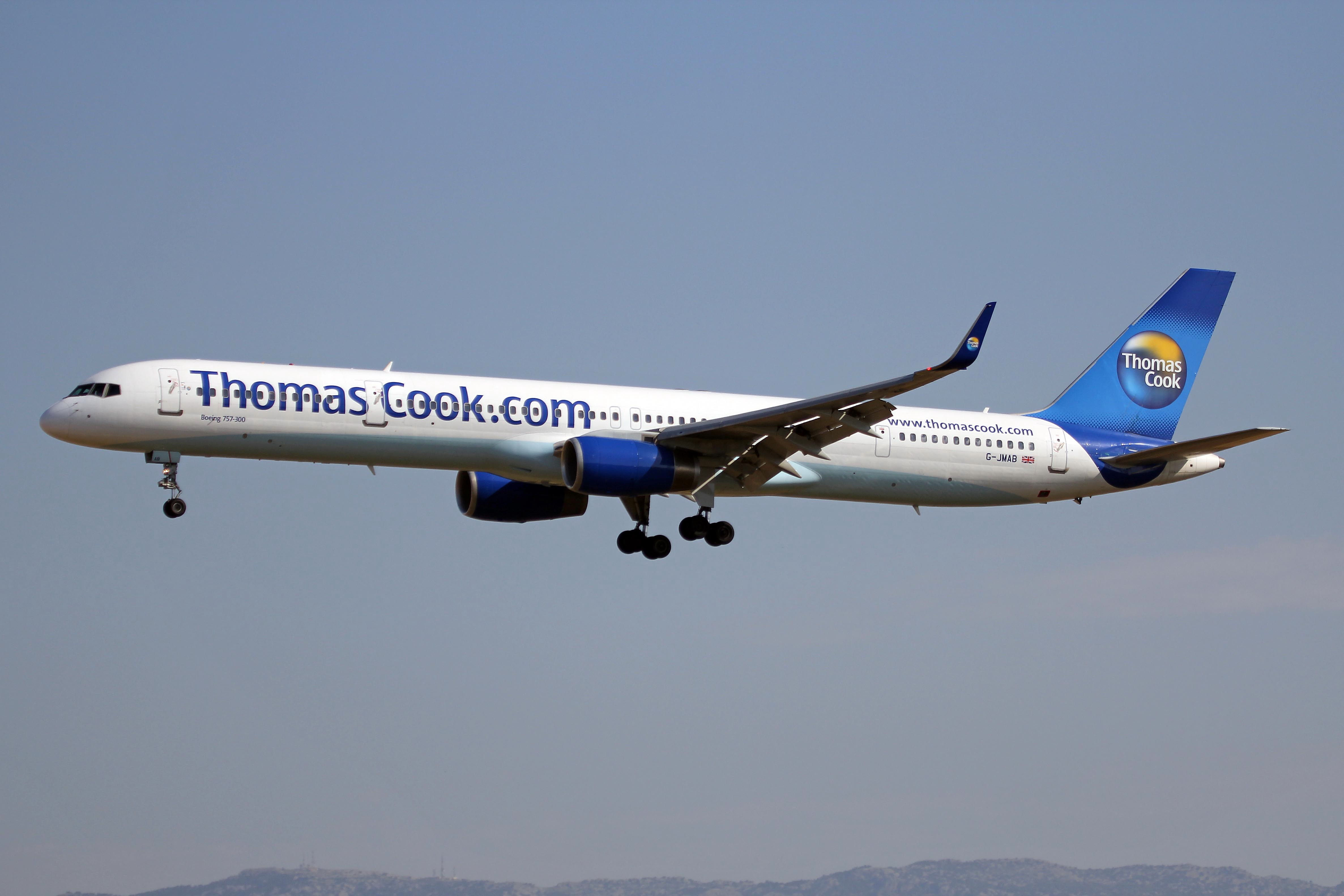 Now with additional winglets!